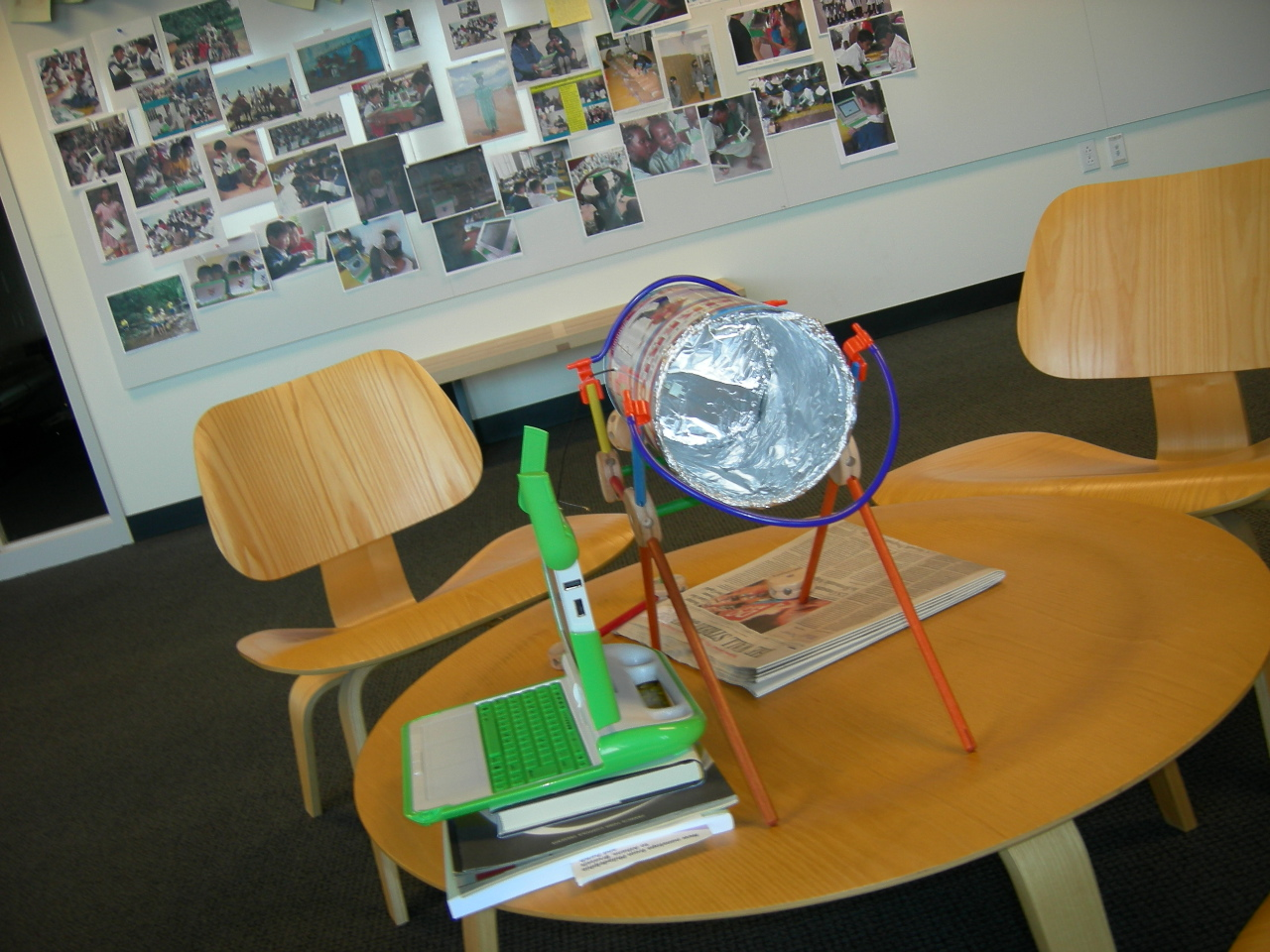 The assembled device